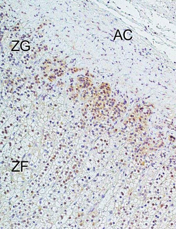 Immunohistochemical analysis of L-type calcium channel CaV1.3 (CACNA1D) in human adrenal cortex. Marked immunoreactivity was detected in the zona glomerulosa. Abbreviations in the figure: ZG = zona glomerulosa, ZF = zona fasciculata, AC = adrenal capsule. Immunohistochemistry was performed according to methods published by Felizola et al 2014 J Steroid Biochem Mol Biol. 144 Pt B:410-6.